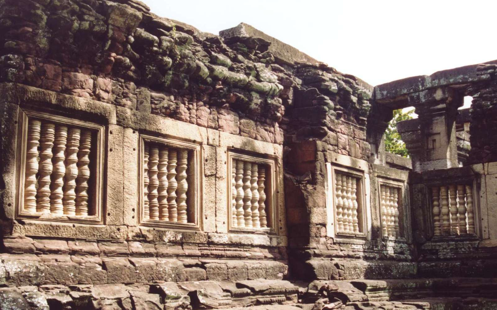 Windows in the walls encolsing the inner sanctuary of Phimai historical park, Nakhon Ratchasima, Thailand. Photo taken by User:Ahoerstemeier on July 11, 2003.